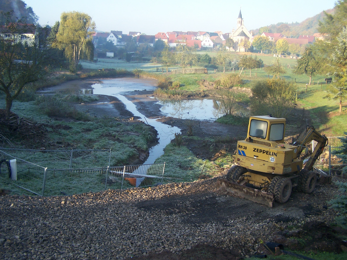 The smal lake of Frauensee - 2008 under construction.